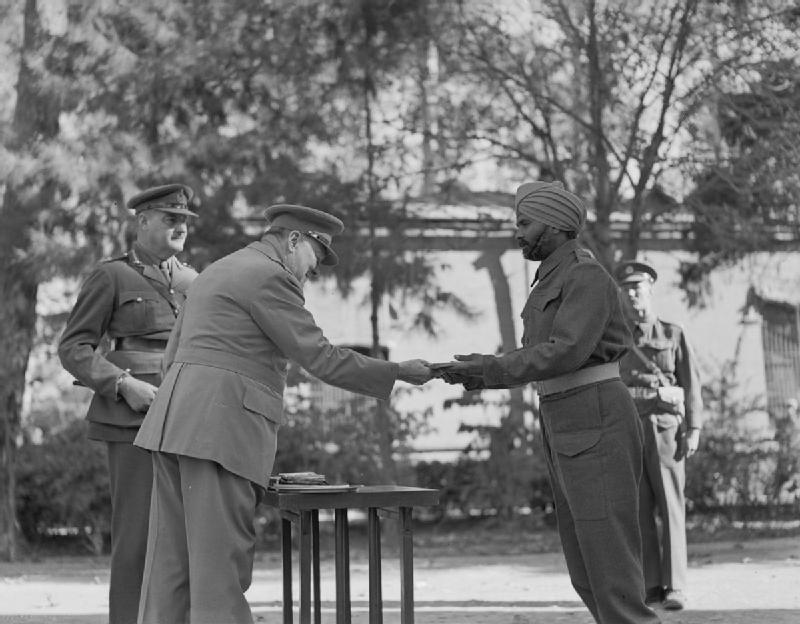 Celebrations To Mark Prime Minister Churchill's 69th Birthday Sergeant Kipral Singh of the 3rd Battalion, 11th Sikh Regiment handing a gift to the Prime Minister Winston Churchill.